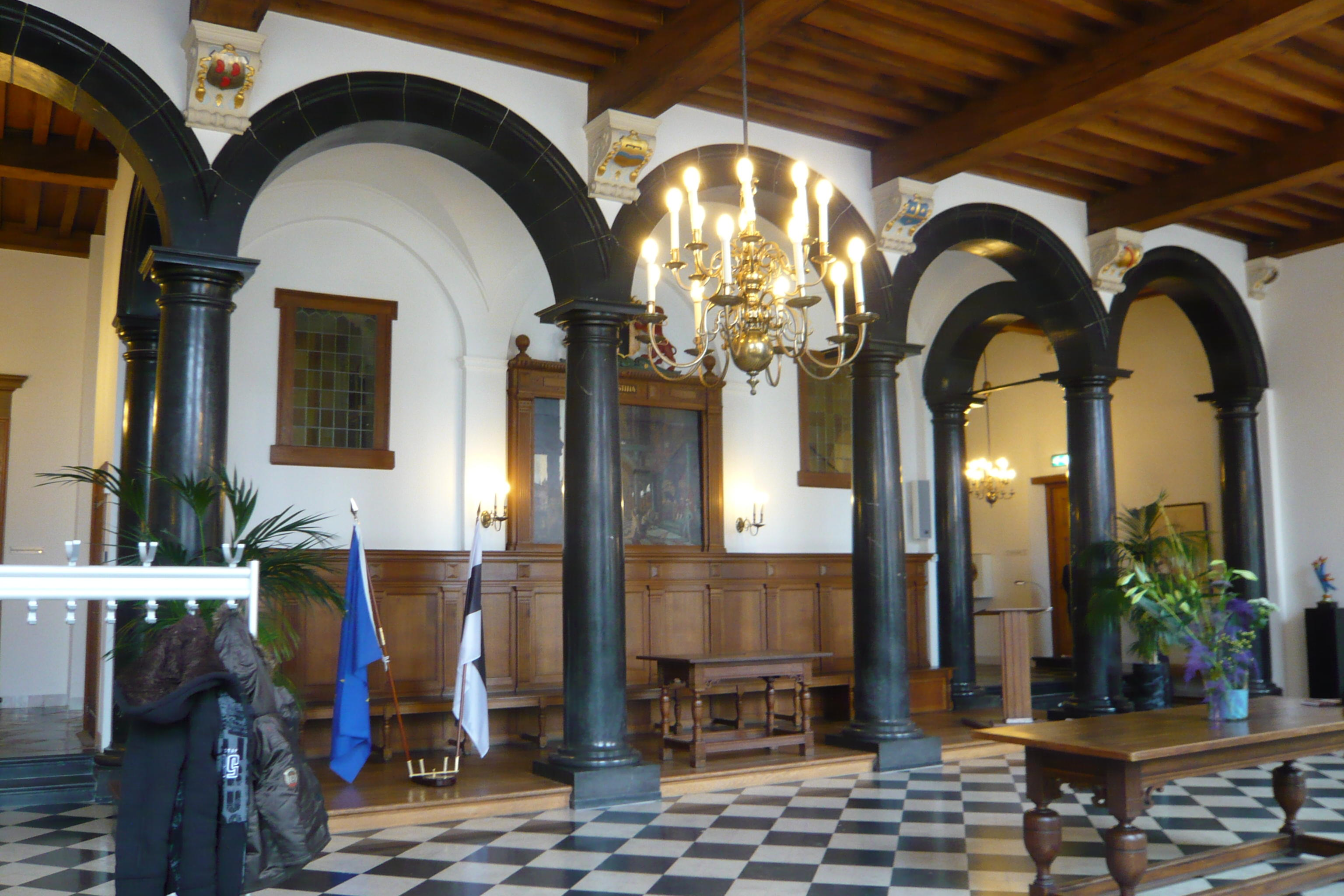 City Hall, Grote markt, Delft Vierschaar